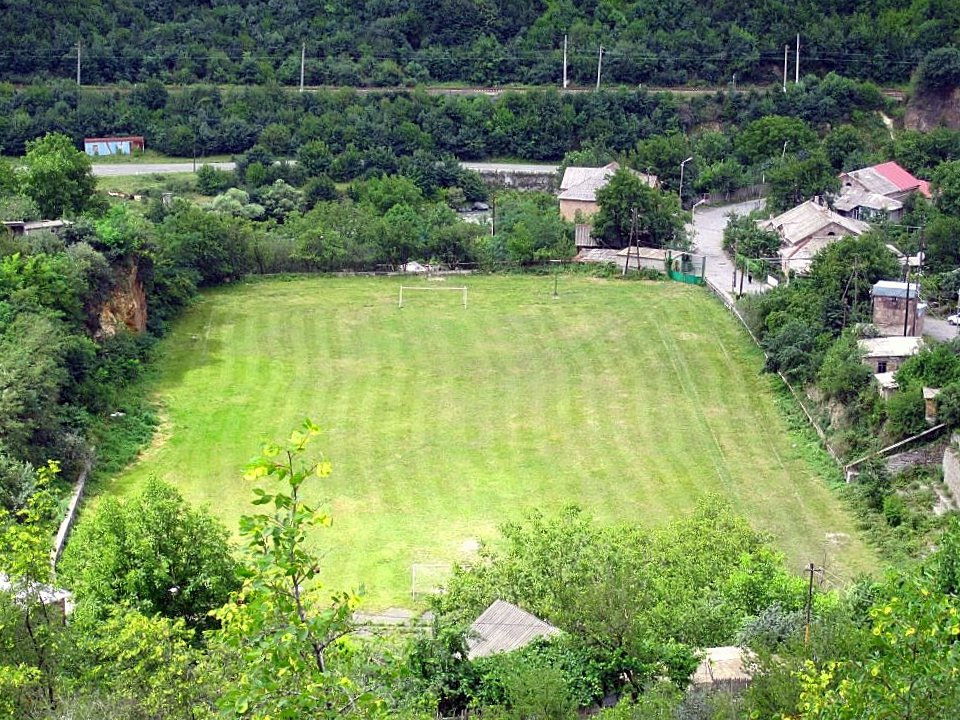 Tumanyan City Stadium, Armenia